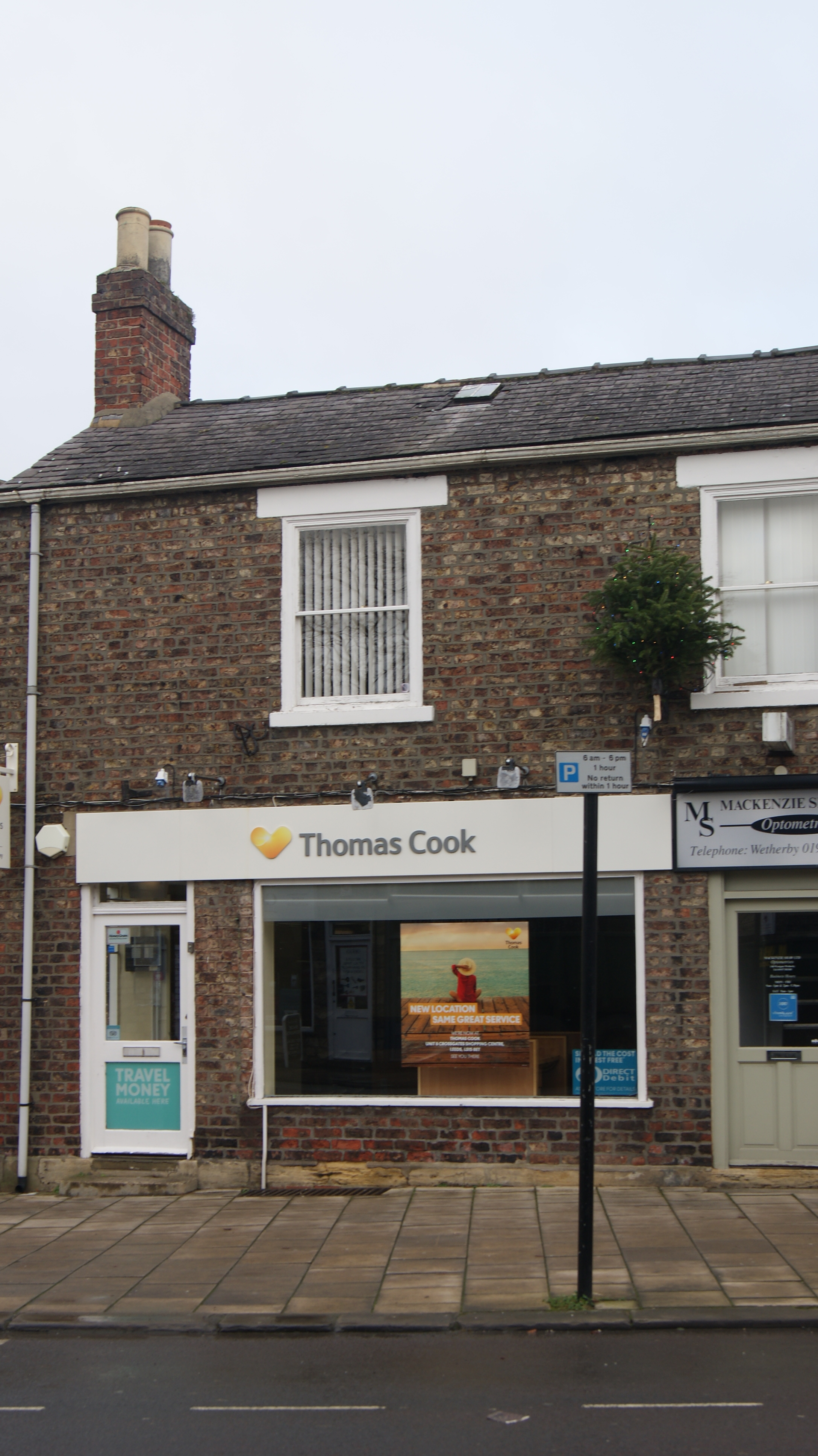 Thomas Cook, Westgate, Wetherby, West Yorkshire. This branch has closed; or as Thomas Cook have described in 'moved' to the Arndale Centre in Cross Gates. Taken on the afternoon of Friday the 1st of December 2017.